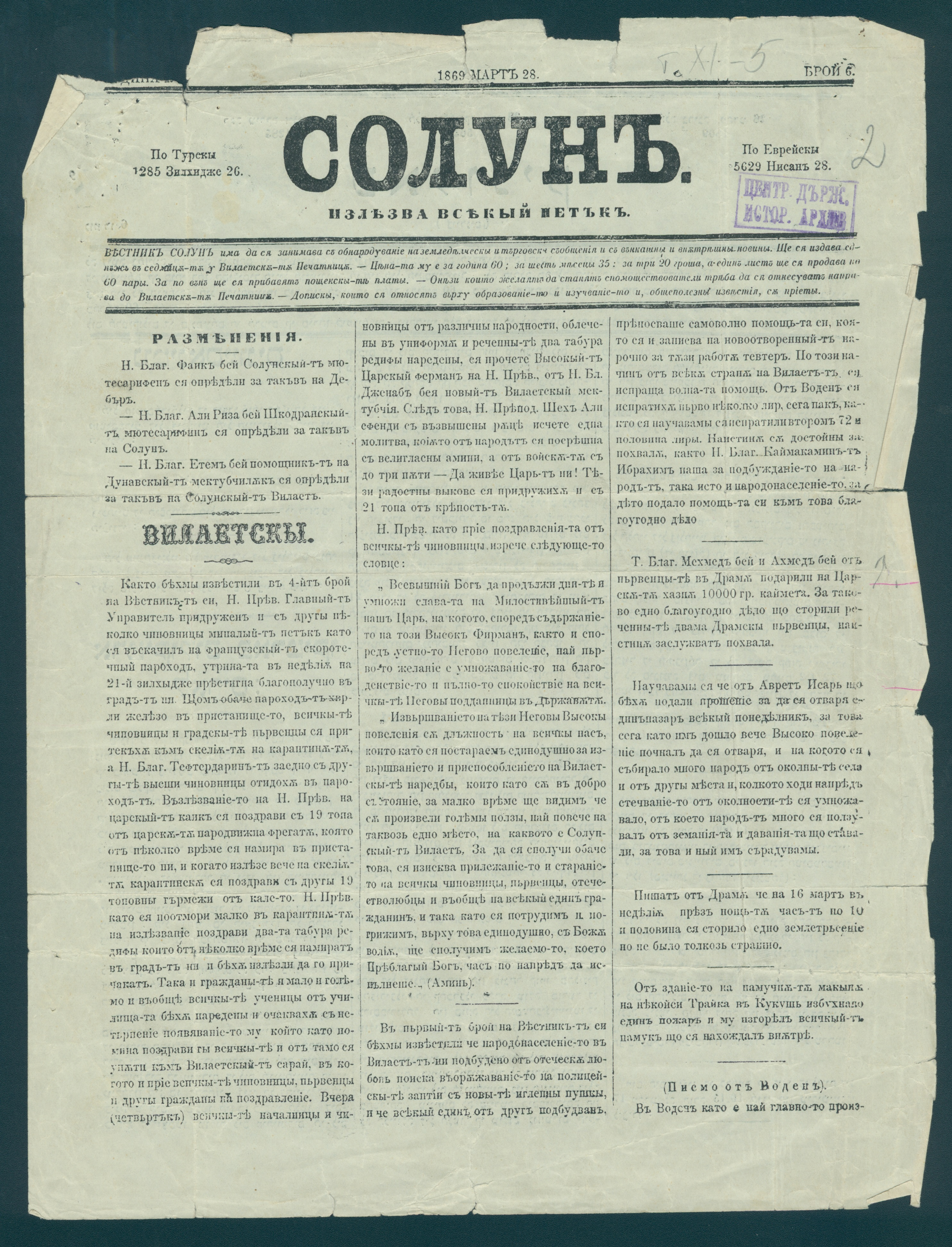 Solun Newspaper 1869-03-28 in Bulgarian